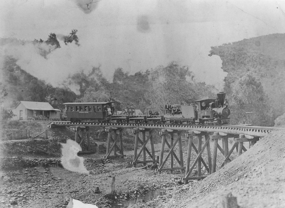 Steam tram crossing Irvinebank bridge over Gibbs Creek, ca. 1911 The Irvinebank tramway was built in 1907. This steam locomotive was called Baby and was taking its passengers on a picnic tour to Stannary Hills. (Description supplied with photograph).